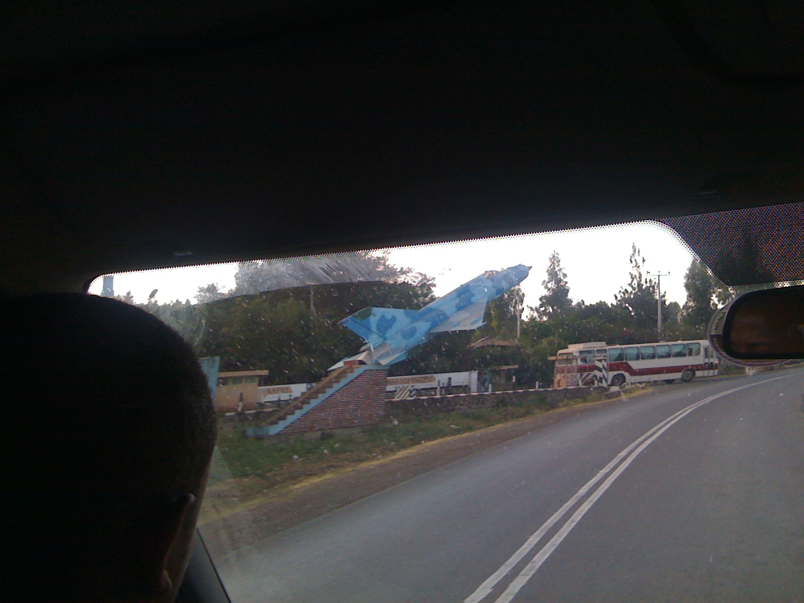 Gate of an Ethiopian Air Base.